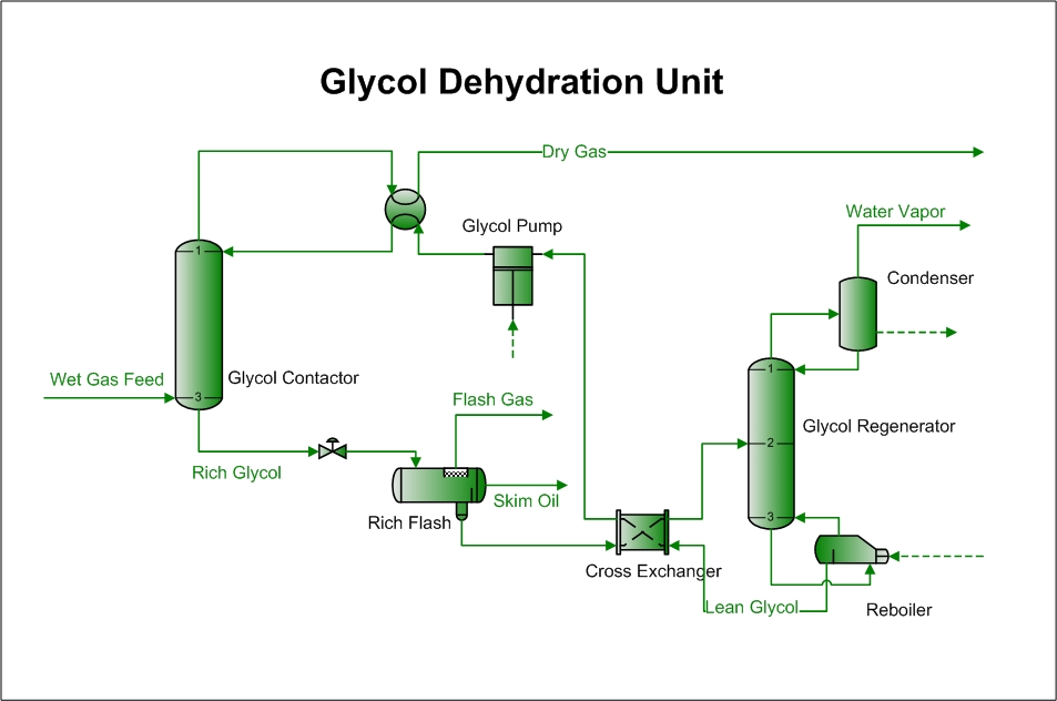 Basicy Glycol Dehydration Unit for a wet natural gas feed. Summary Basicy Glycol Dehydration Unit for a wet natural gas feed.